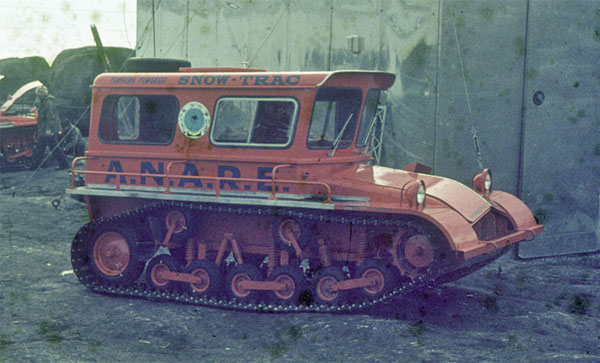 This Porsche powered Snow Trac was lost when the ice broke on an Antarctic expedition and it fell through the ice. The 3 people inside the Snow Trac escaped through the roof hatch and onto the ice. The loss of this Snow Trac is detailed in the A.N.A.R.E. club magazine, The Aurora, June 1963, in the article CLOSE ENCOUNTERS OF THE WORST KIND, Three Brushes With Death in the Antarctic. The photo was provided by an A.N.A.R.E. alumnus.